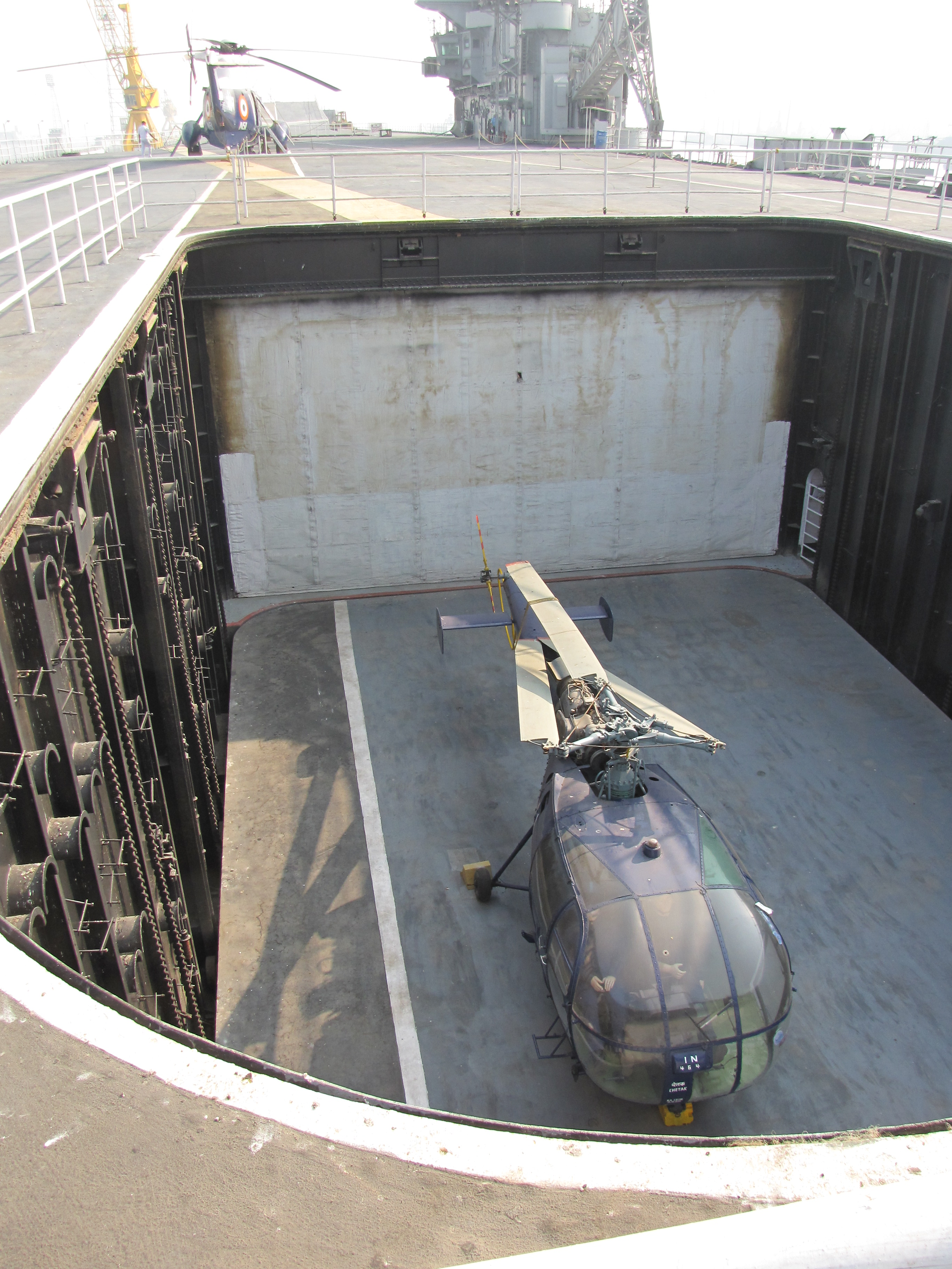 Aircraft elevator of INS Vikrant, decommissioned aircraft carrier of the Indian Navy.